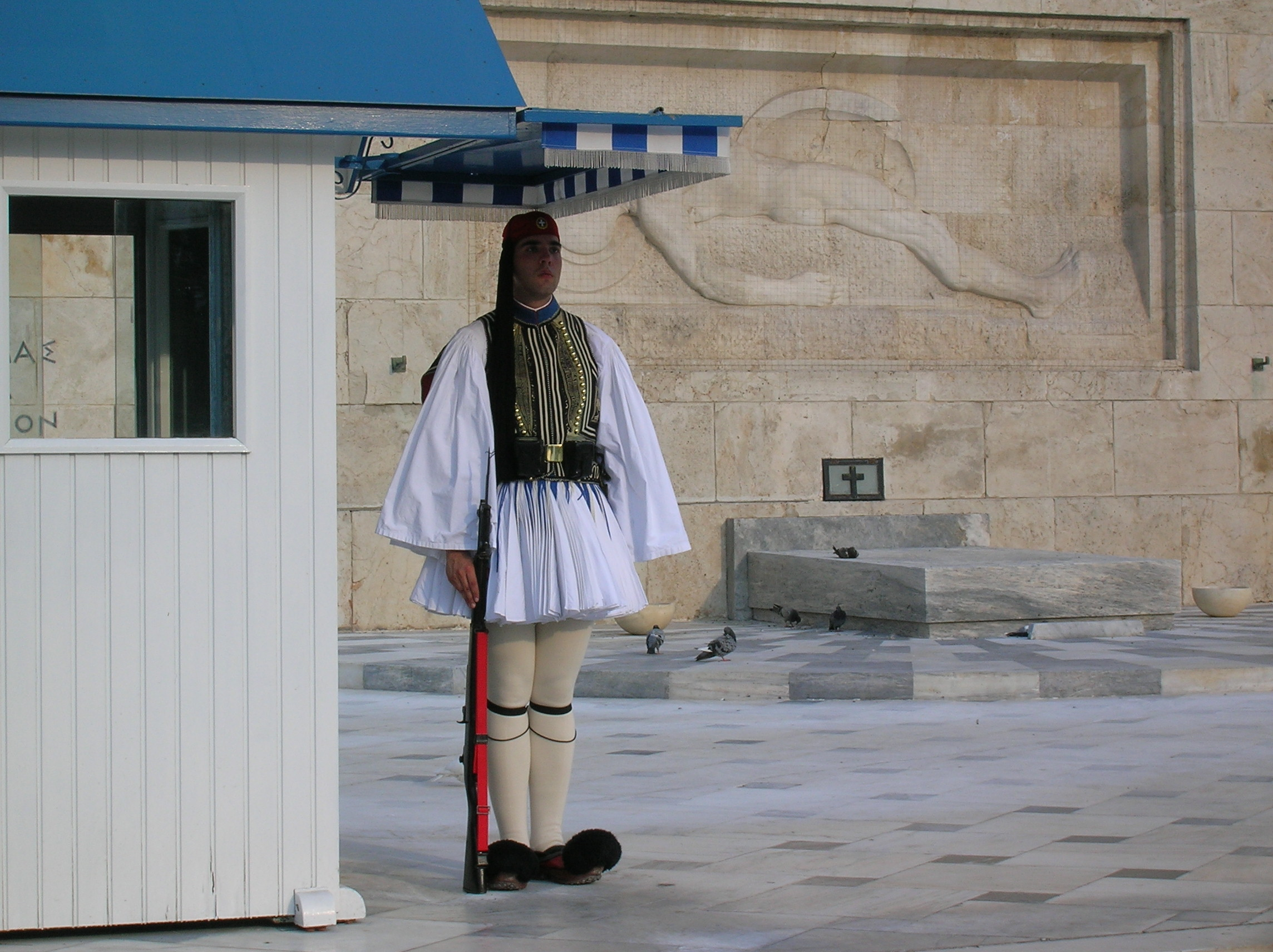 Evzone guard in front of parliament building, Athens, Greece.